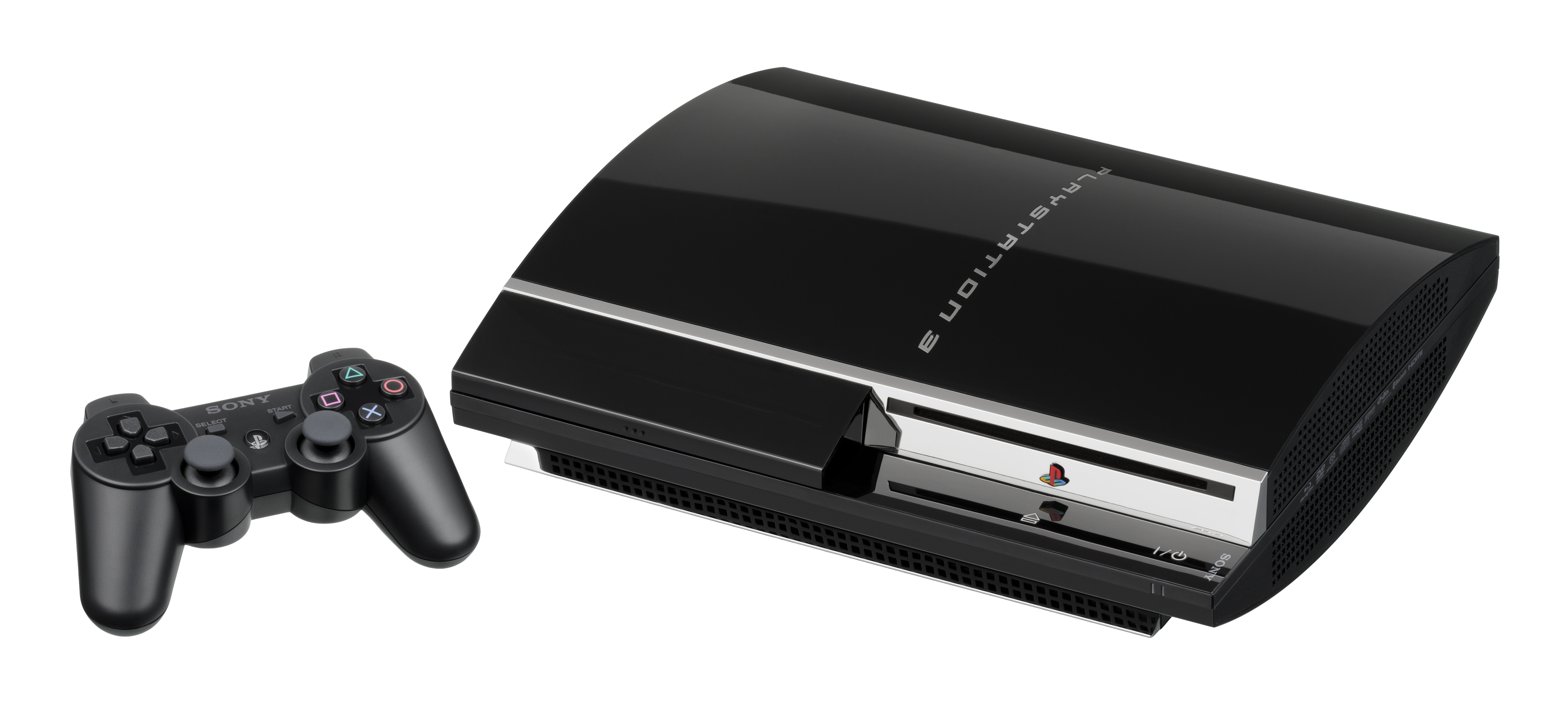 The Sony PlayStation 3 (PS3) video game console, shown with DualShock 3 controller. This is a seventh generation console first released in 2006 as the successor to the PlayStation 2. This model is the CECHA01, one of the first two models released. It features a 60GB hard drive, hardware-based backwards compatibility with PS2 games and flash memory card readers.